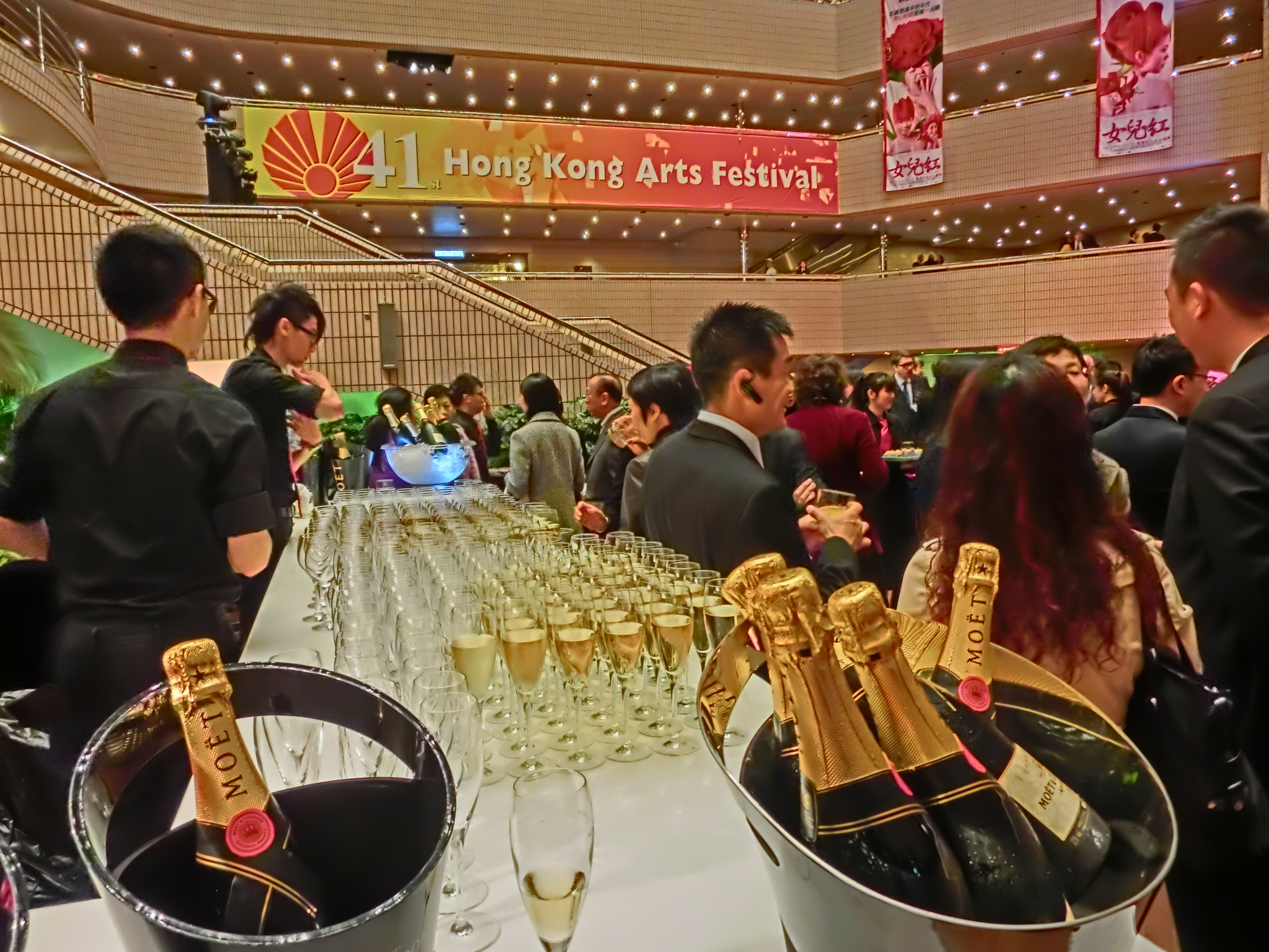 Opening ceremonyCocktail party of 2013 Hong Kong Arts Festival, 第41屆zh:香港藝術節2013年2月21日開幕典禮zh:酒會